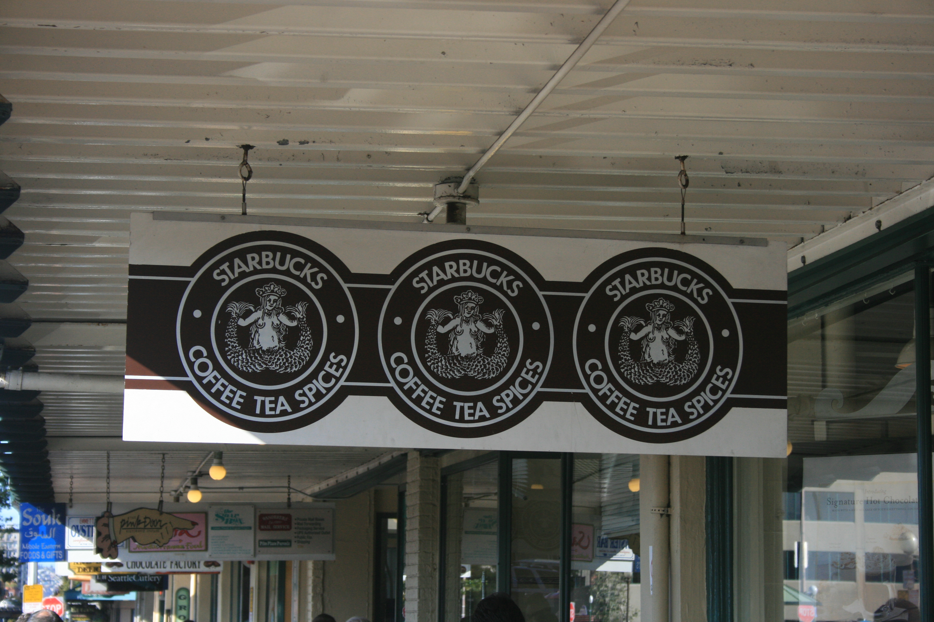 Close up of the original Starbucks Coffee logo at 1912 Pike Pl, Seattle, WA, United States.